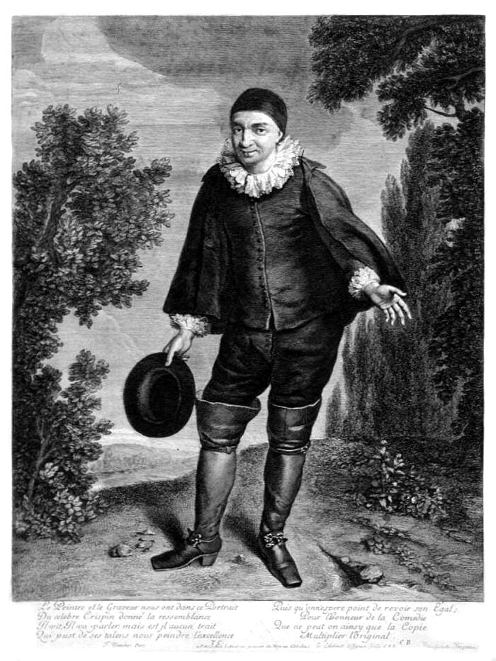 The 17th-century French actor, Raymond Poisson, in the role of Crispin